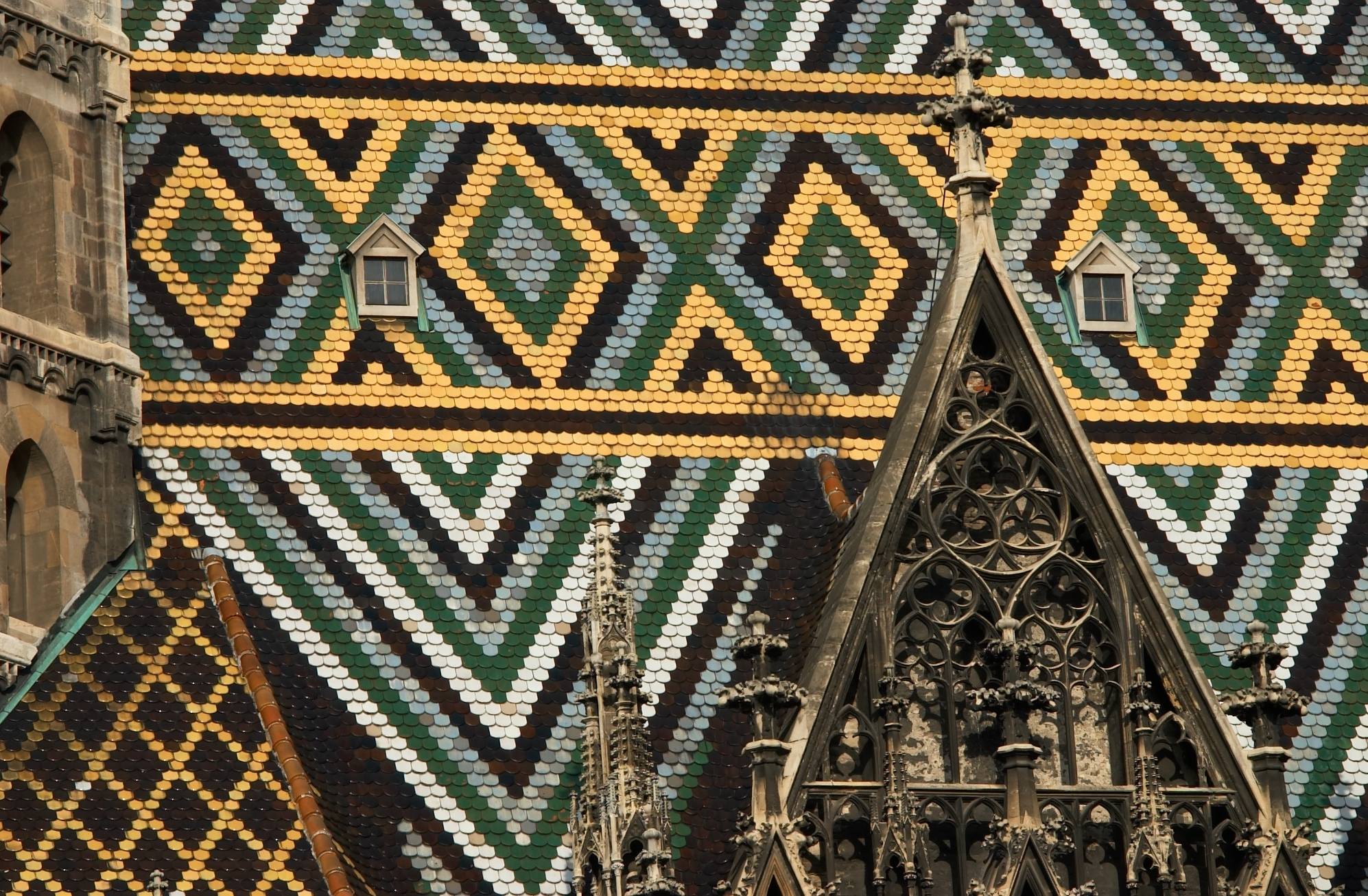 Some of the 200,000+ glazed tiles that cover the magnificent roof of the Stephansdom cathedral.